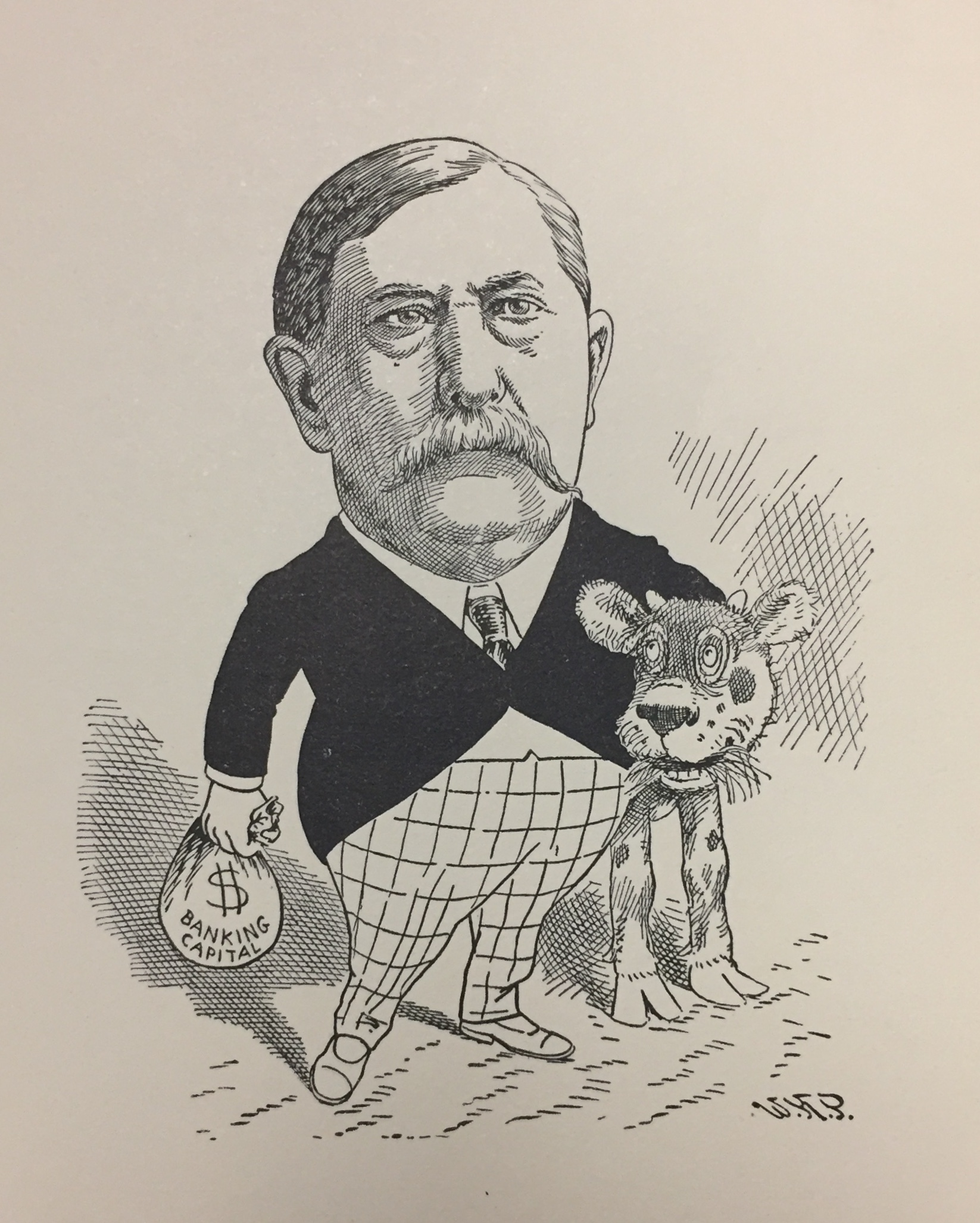 1914 caricature of Texas rancher and businessman Samuel Burk Burnett (1849-1922)